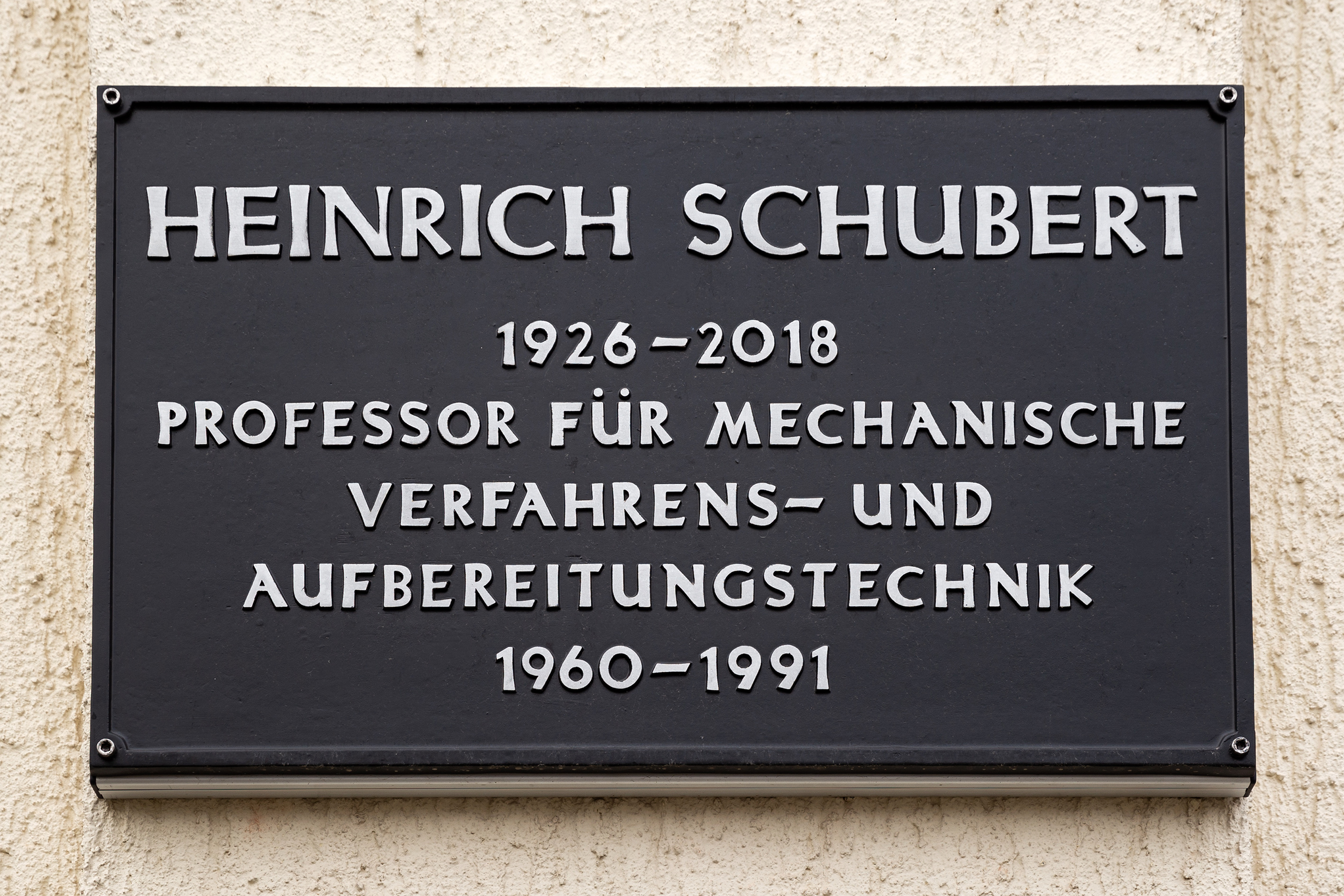 Heinrich Schubert (1926-2018), plaque in Freiberg, Saxony